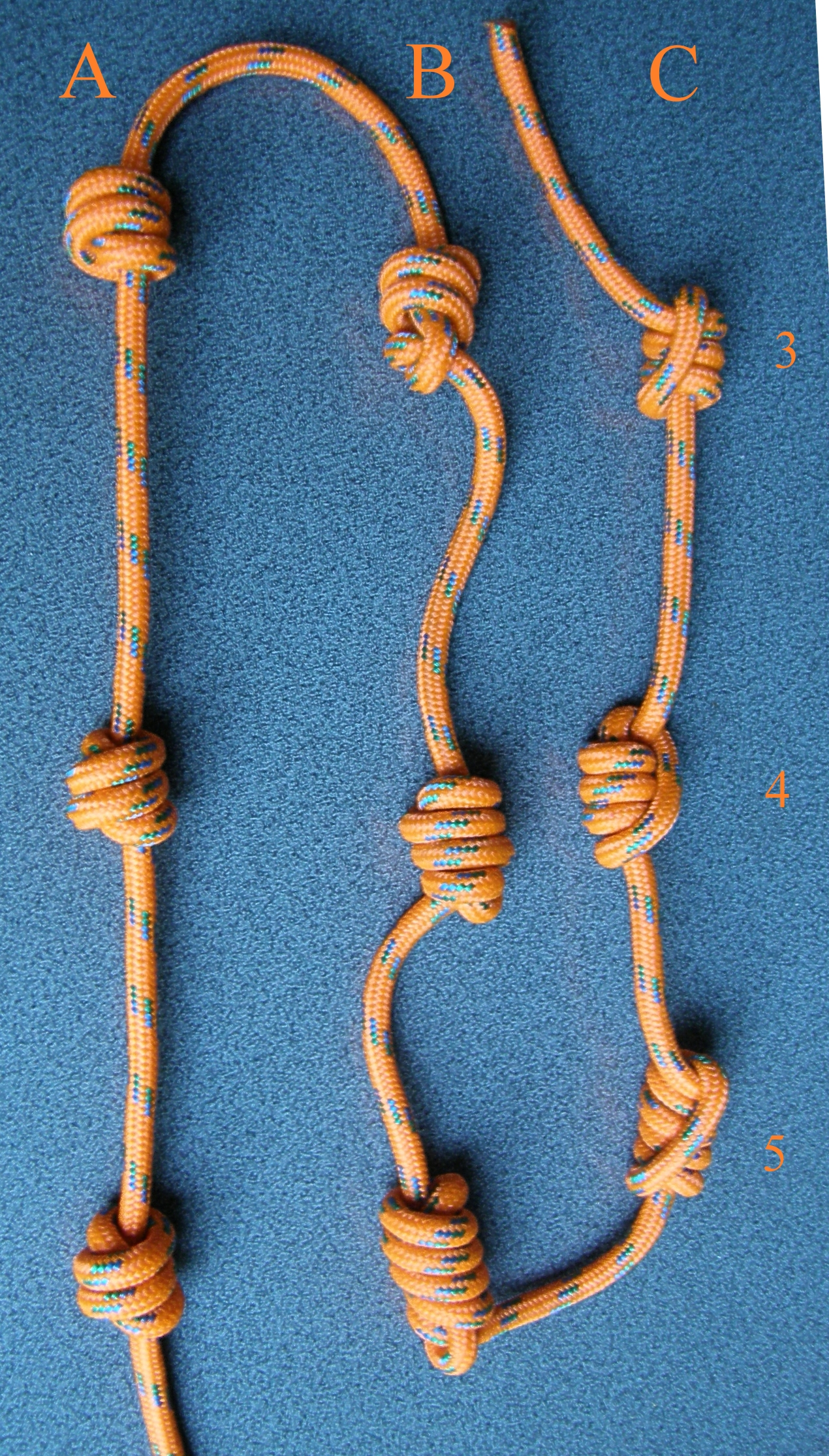 Evidence of the different nodes A is not B is not C